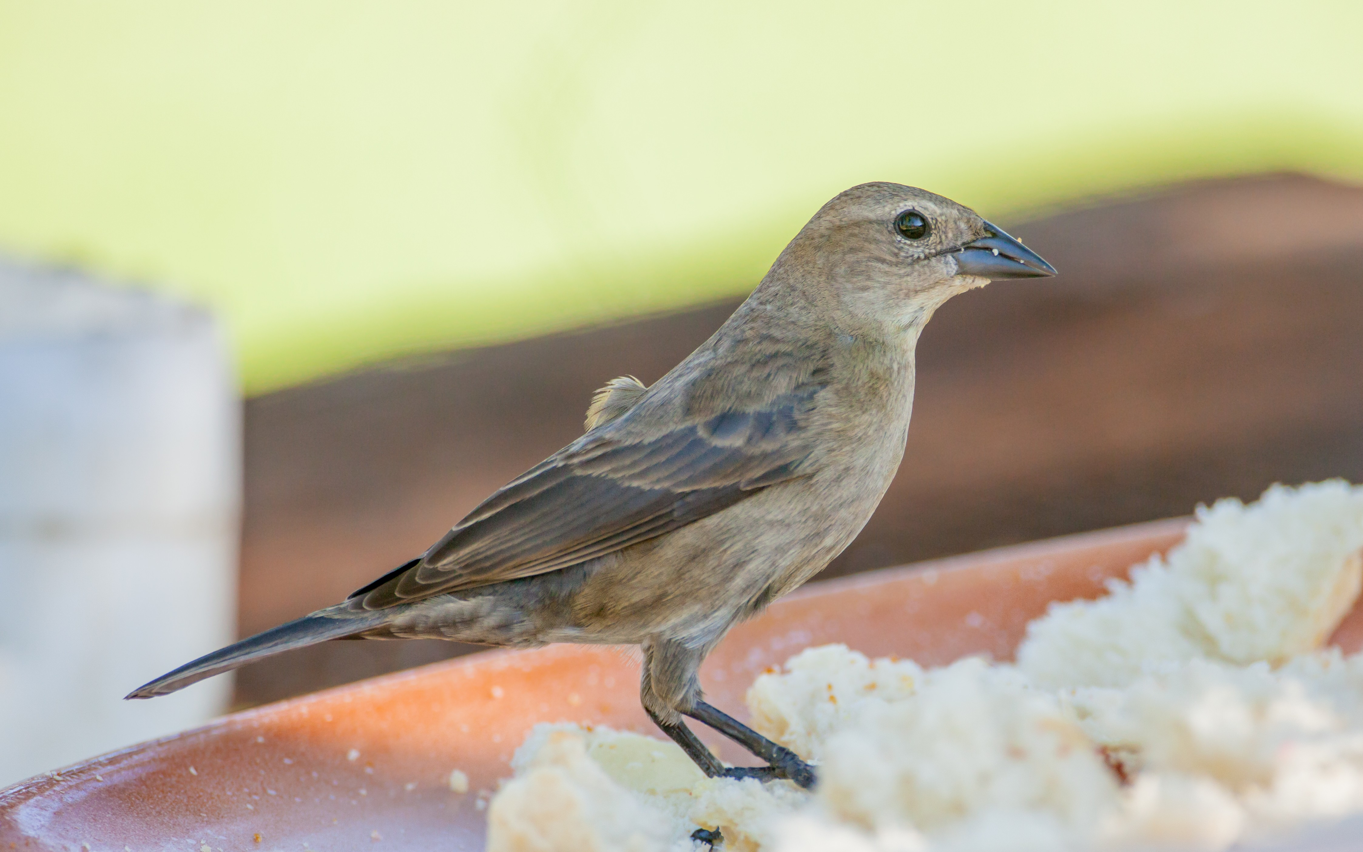 Shiny Cowbird Molothrus bonariensis, female. Cuba, near Holguin.